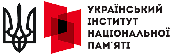 Logo of the Ukrainian Institute of National Remembrance